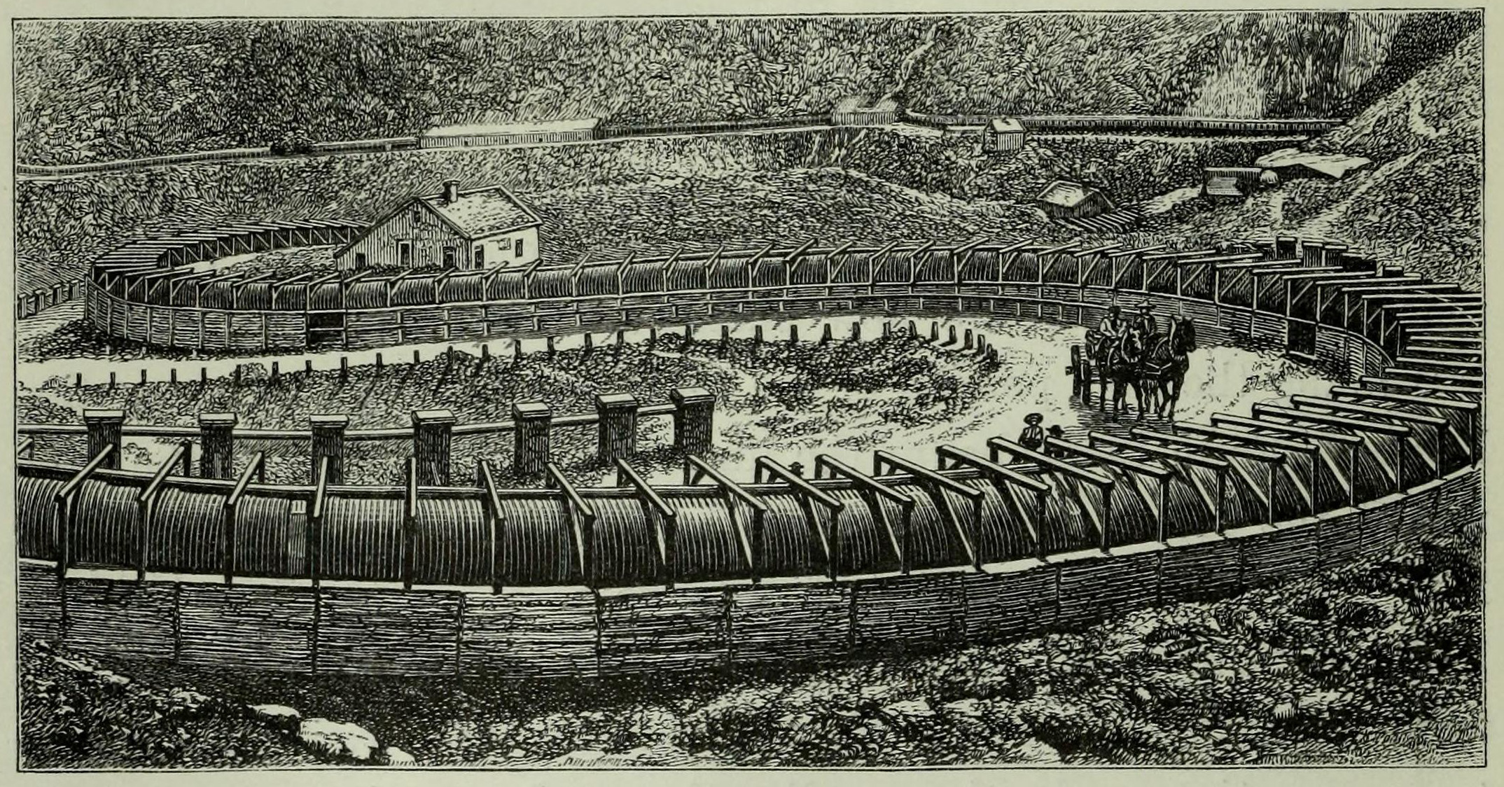 Image on page 80 of Scrambles amongst the Alps